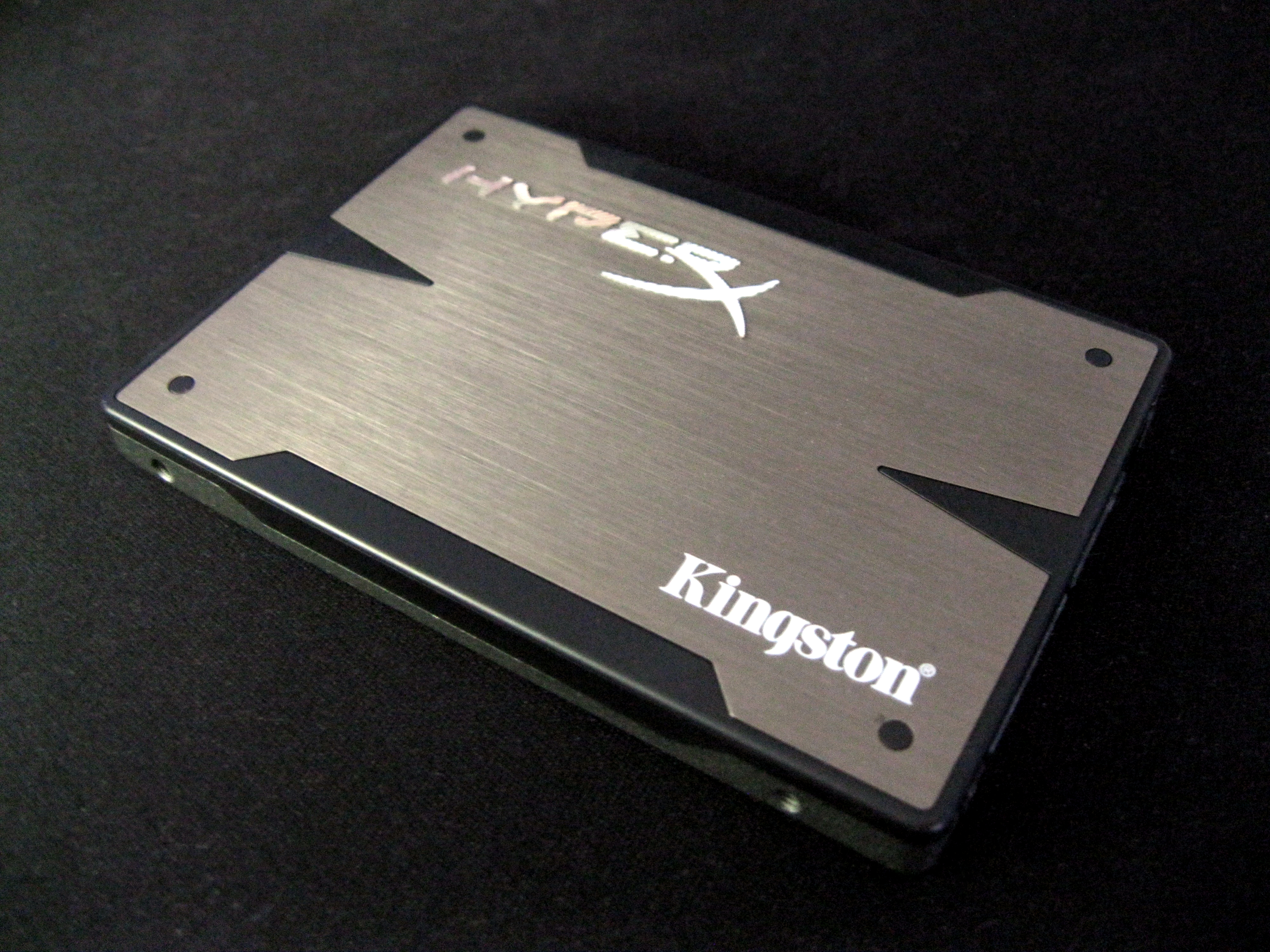 Kingston HyperX 120GB 3K SSD